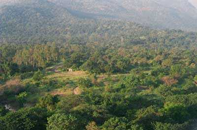 Aerial View of Chinnar Wildlife Sanctuary. View of Chinnar montane rain forest. Chinnar Wildlife Sanctuary.